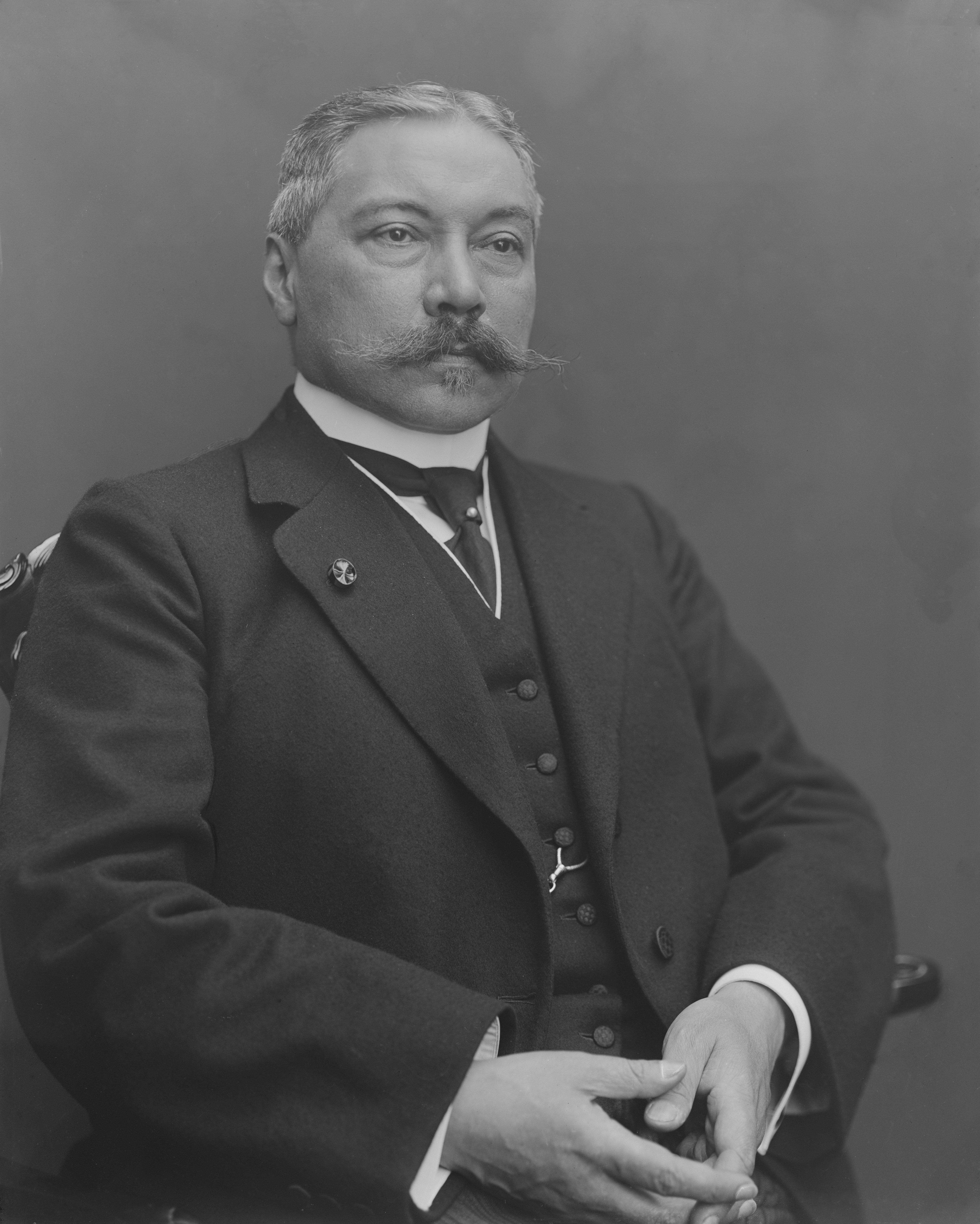 Mr.dr. Willem Frederik van Leeuwen (burgemeester van Amsterdam 1901-1910)